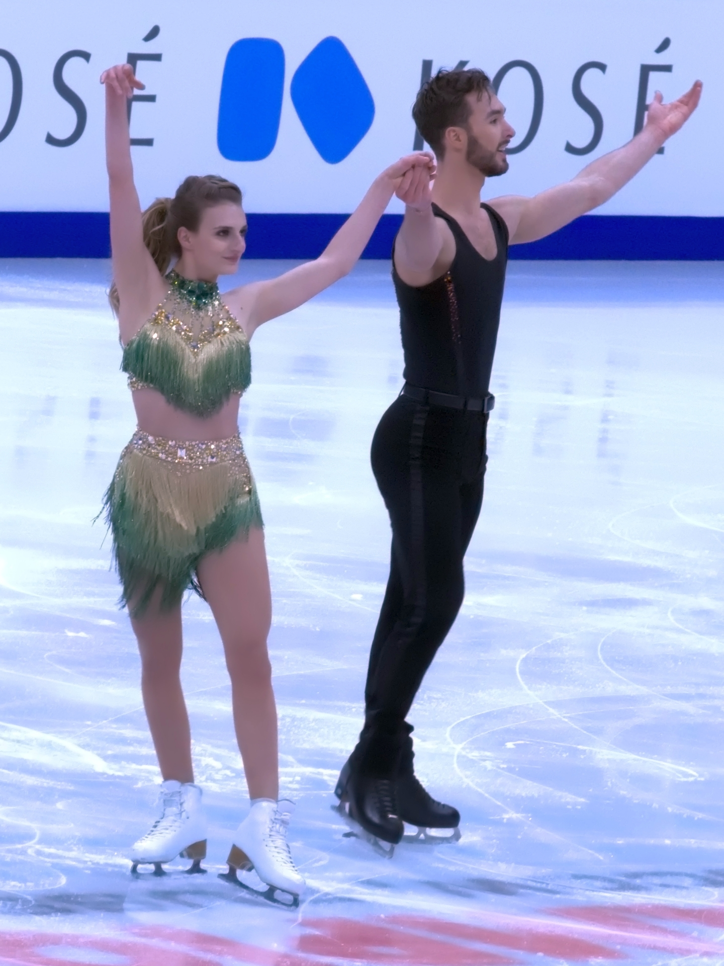 Gabriella Papadakis and Guillaume Cizeron at the 2018 European Figure Skating Championships in Moscow